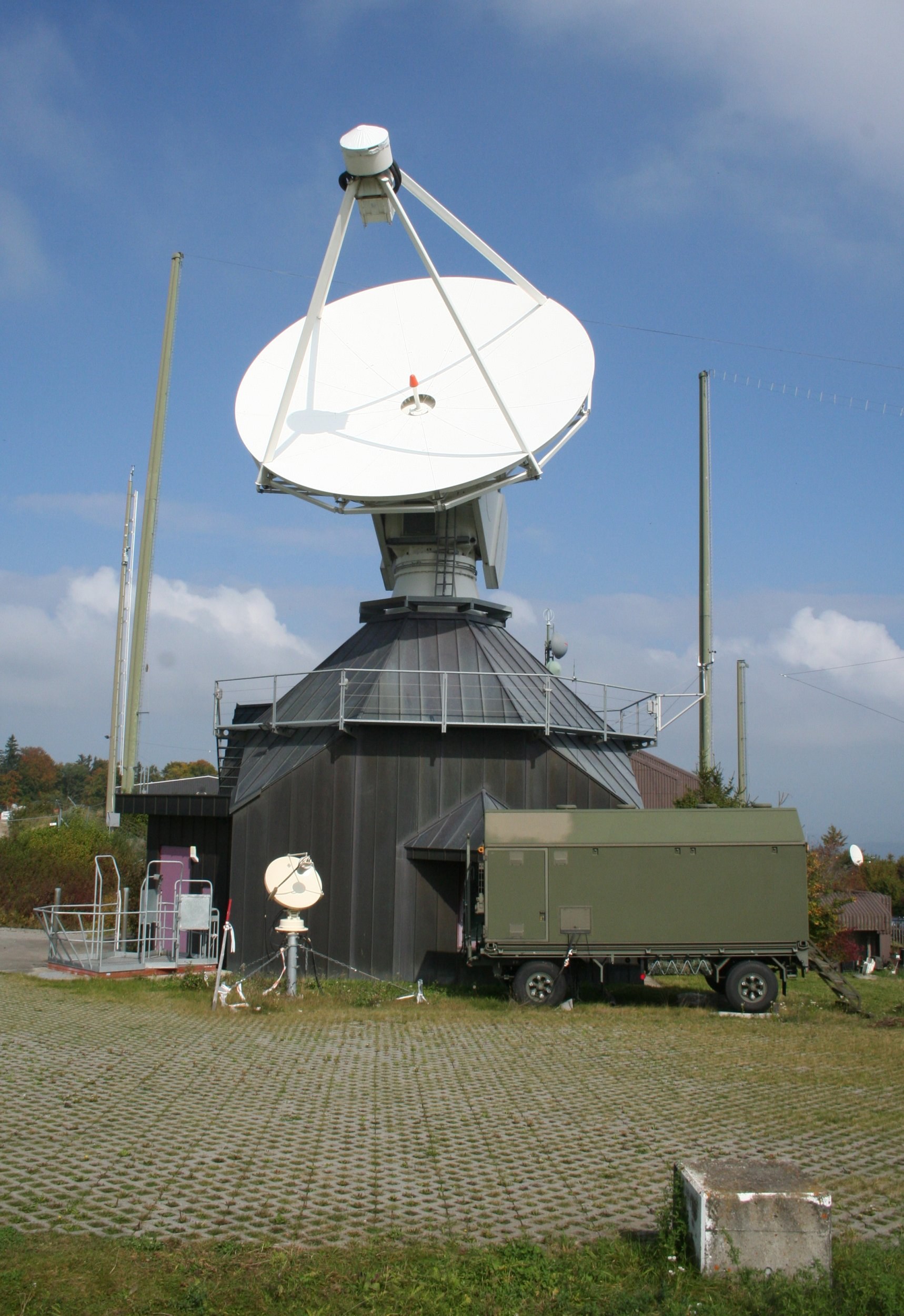 Interception station in Zimmerwald in Switzerland, part of the Onyx interception system of the Swiss army. 46°53′12.46″N 7°28′41.41″E / 46.8867944°N 7.4781694°E